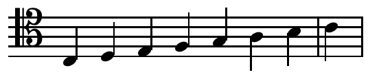 Diatonic scale on C, tenor clef.